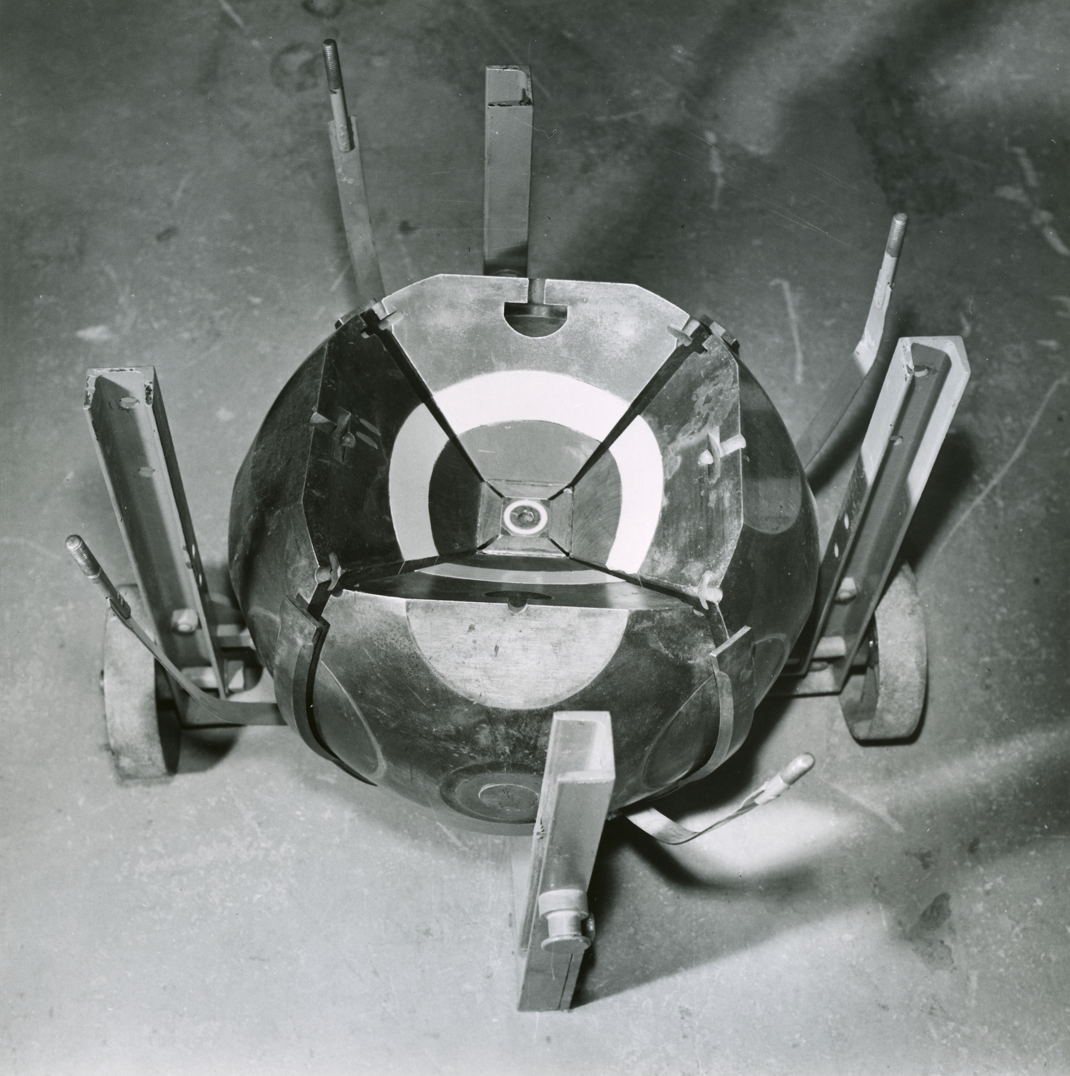 The QUINTUS high pressure apparatus Q-20. In the middle is the cubic high pressure chamber. It is in operation pressed on each side by an anvil. One of the six anvils is not yet assembled to show the cube. The outside of the six anvils is a sphere.